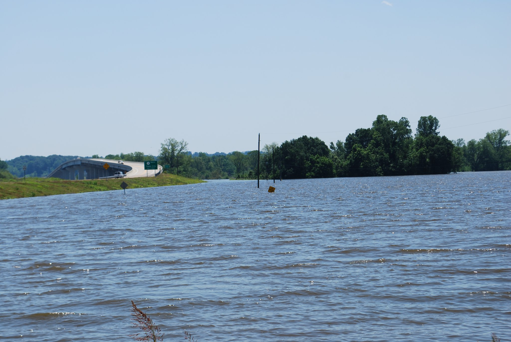 The Yazoo River, outside of Vicksburg, Mississippi, is out-of-its bank and encroaching on Highway South 61. (Photo by Lisa Coghlan)